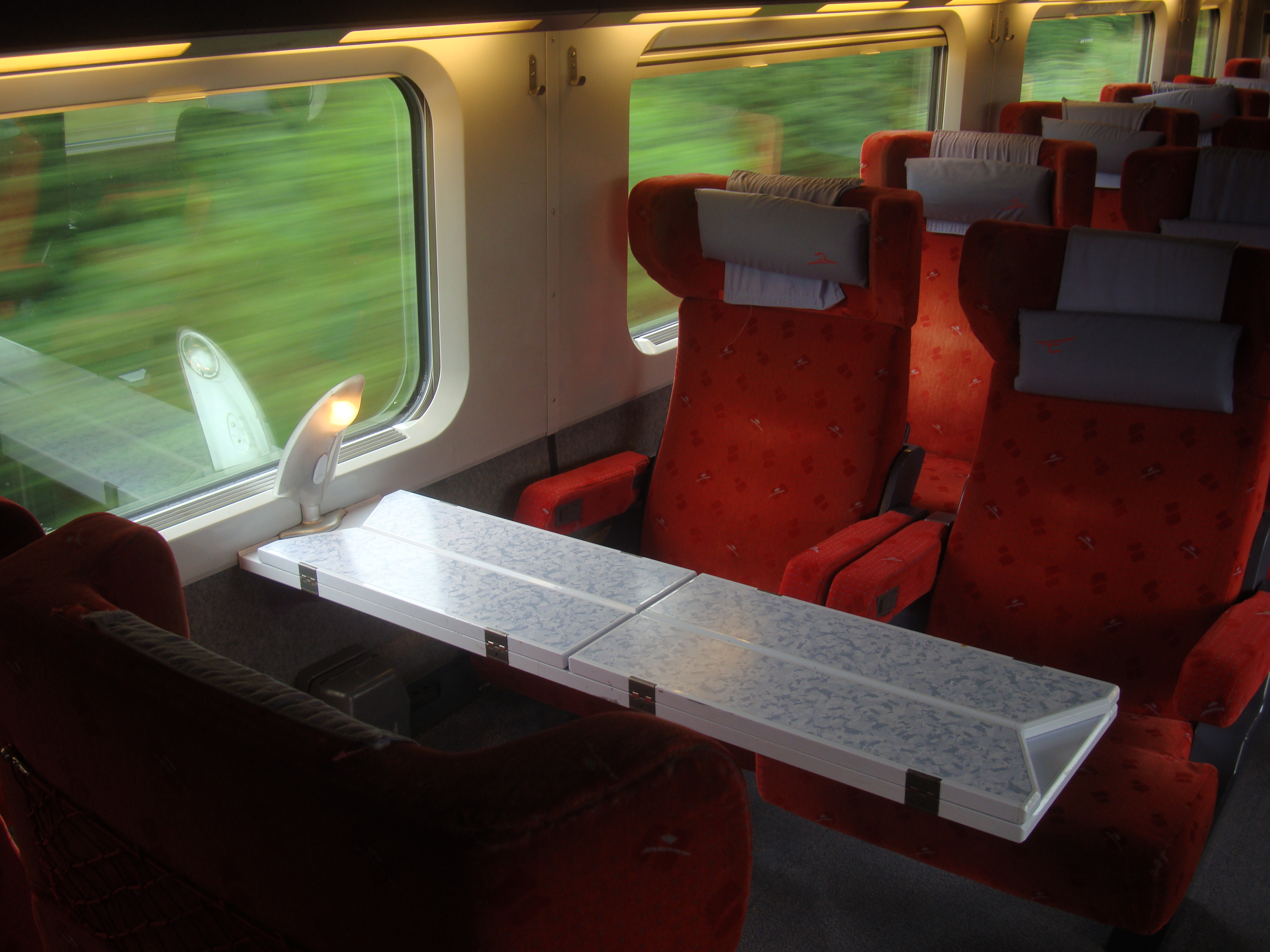 Confort 1 seats in Thalys train.